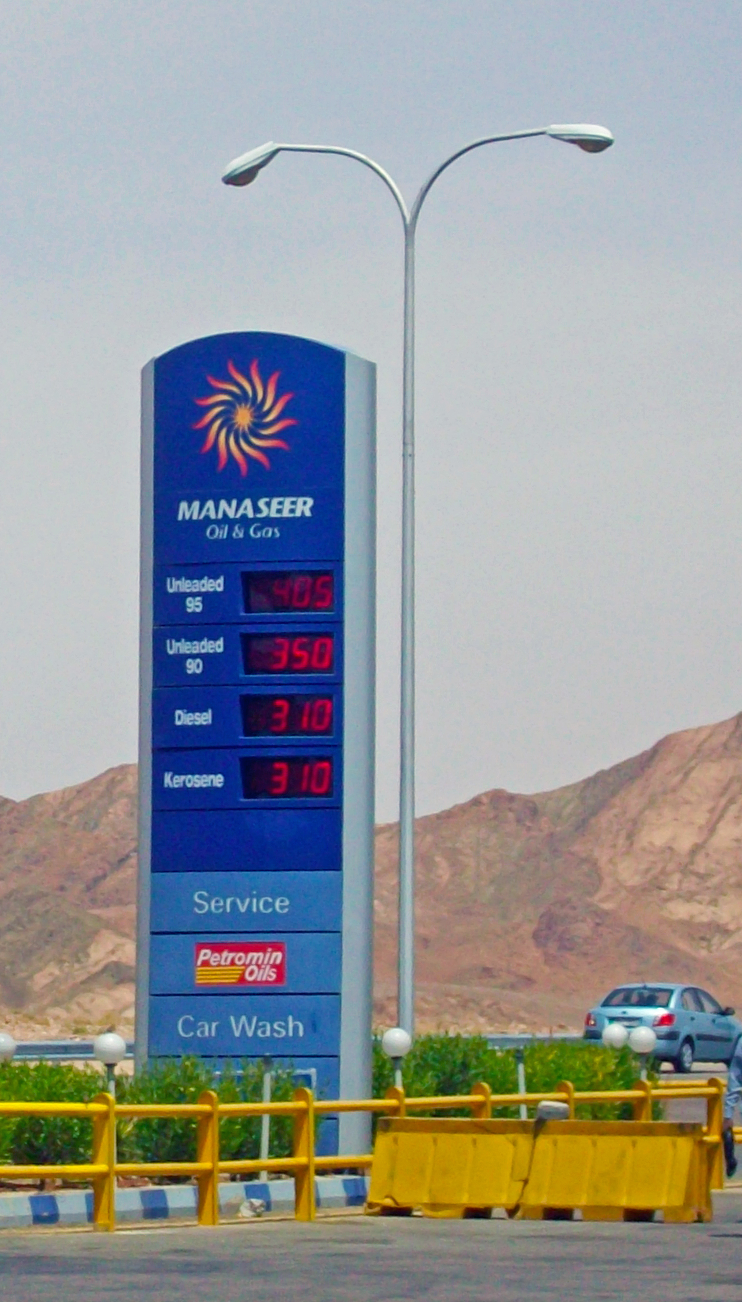 Sign for Manaseer station along Desert Highway in southern Jordan near the turnoff to Wadi Rum.